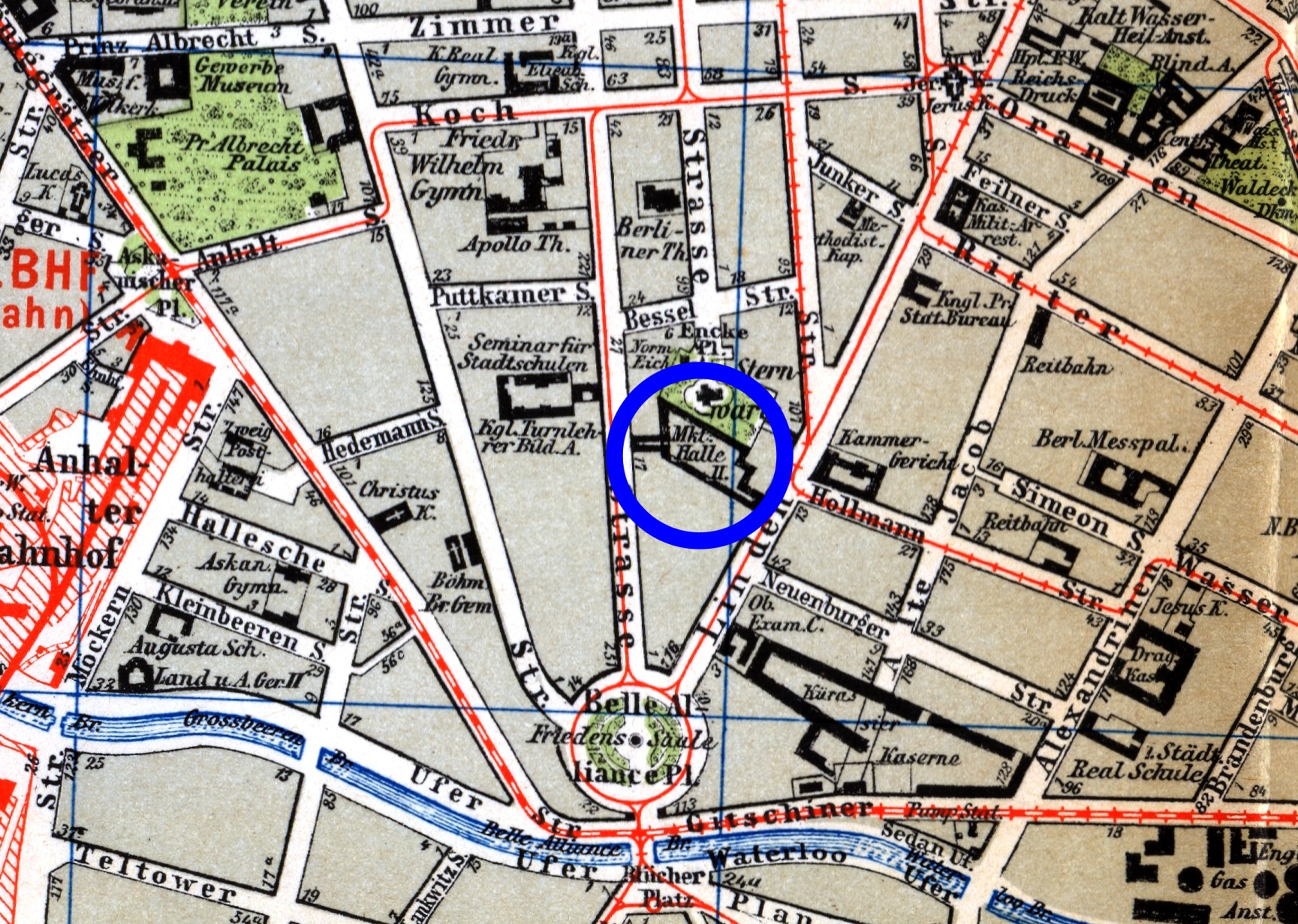 Berlin - Markthalle II, situation plan 1896